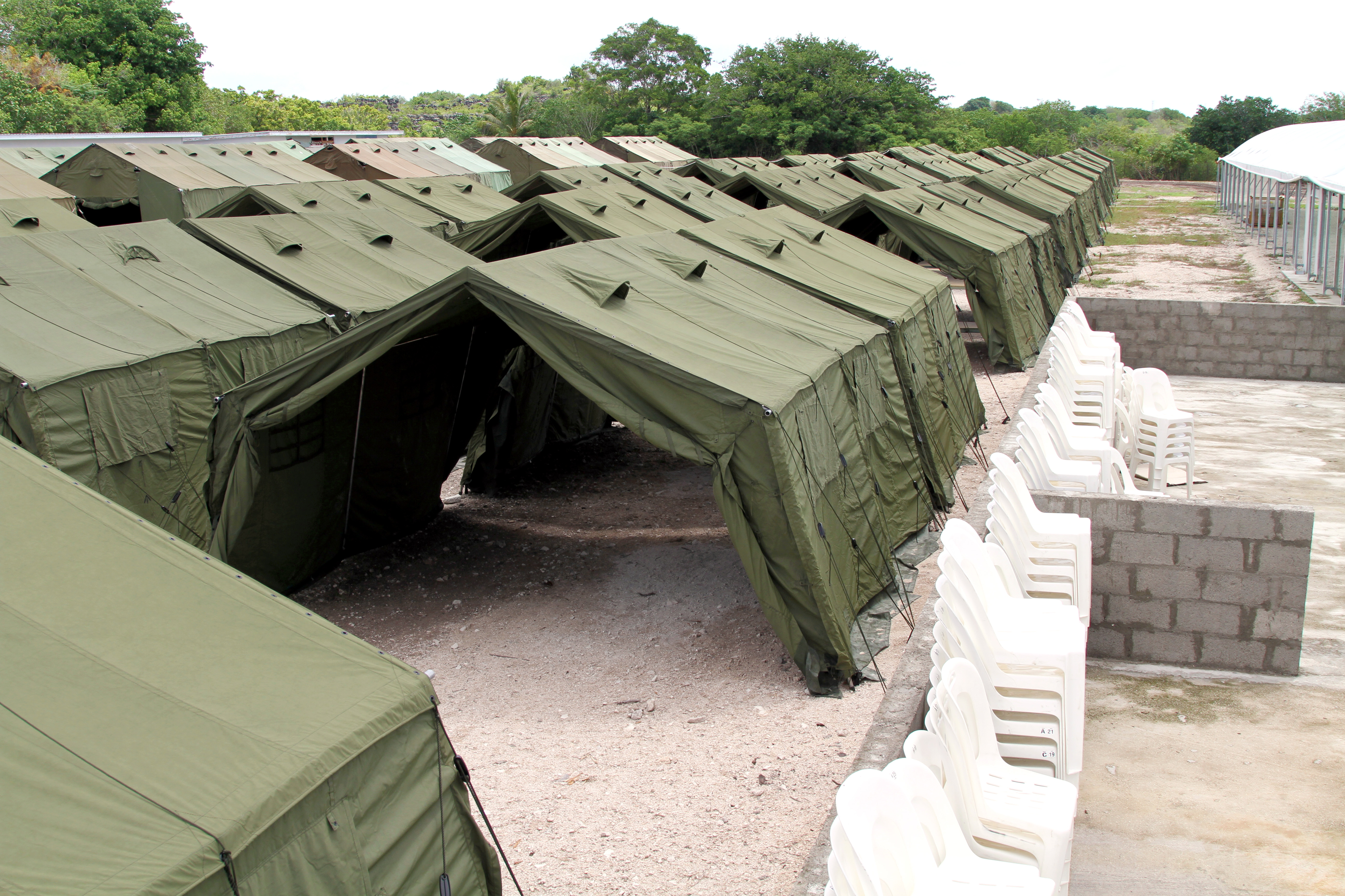 Accommodation in the Nauru offshore processing facility.